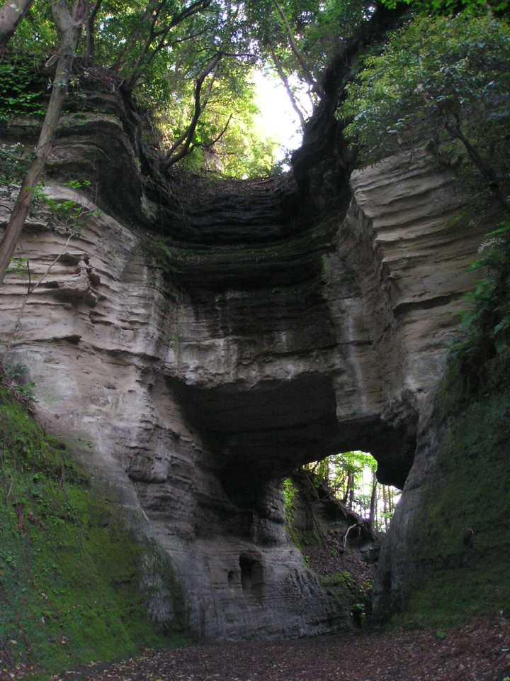 Shakadōguchi Kiridōshi in Kamakura, Kanagawa